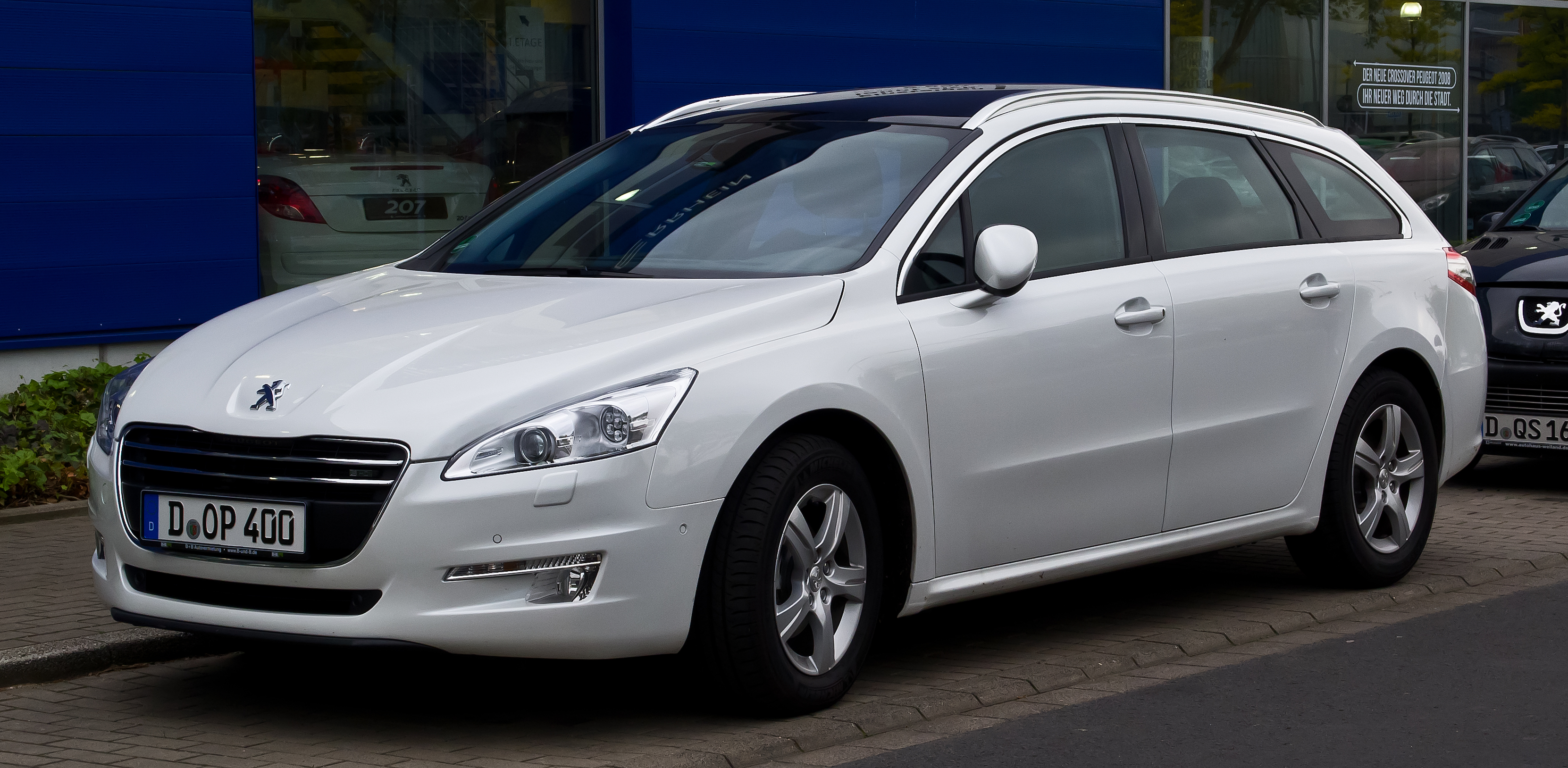 Peugeot 508 SW e-HDi 115 Stop & Start Active